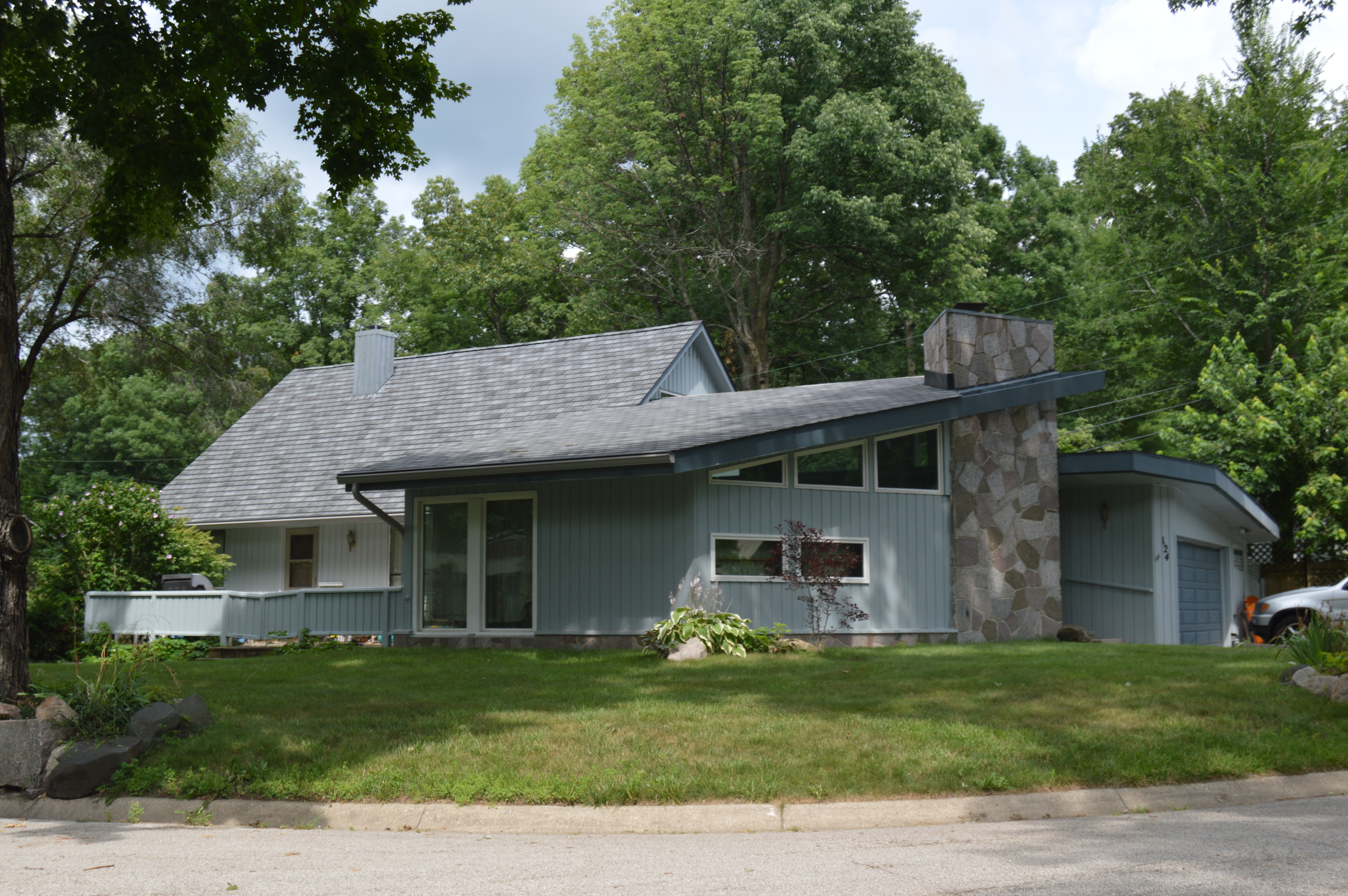 One of the houses facing the cul-de-sac at the end of Sumac Drive in West Lafayette, Indiana, United States. Like the rest of the neighborhood, this house is part of the Happy Hollow Heights Historic District, a historic district that is listed on the National Register of Historic Places.